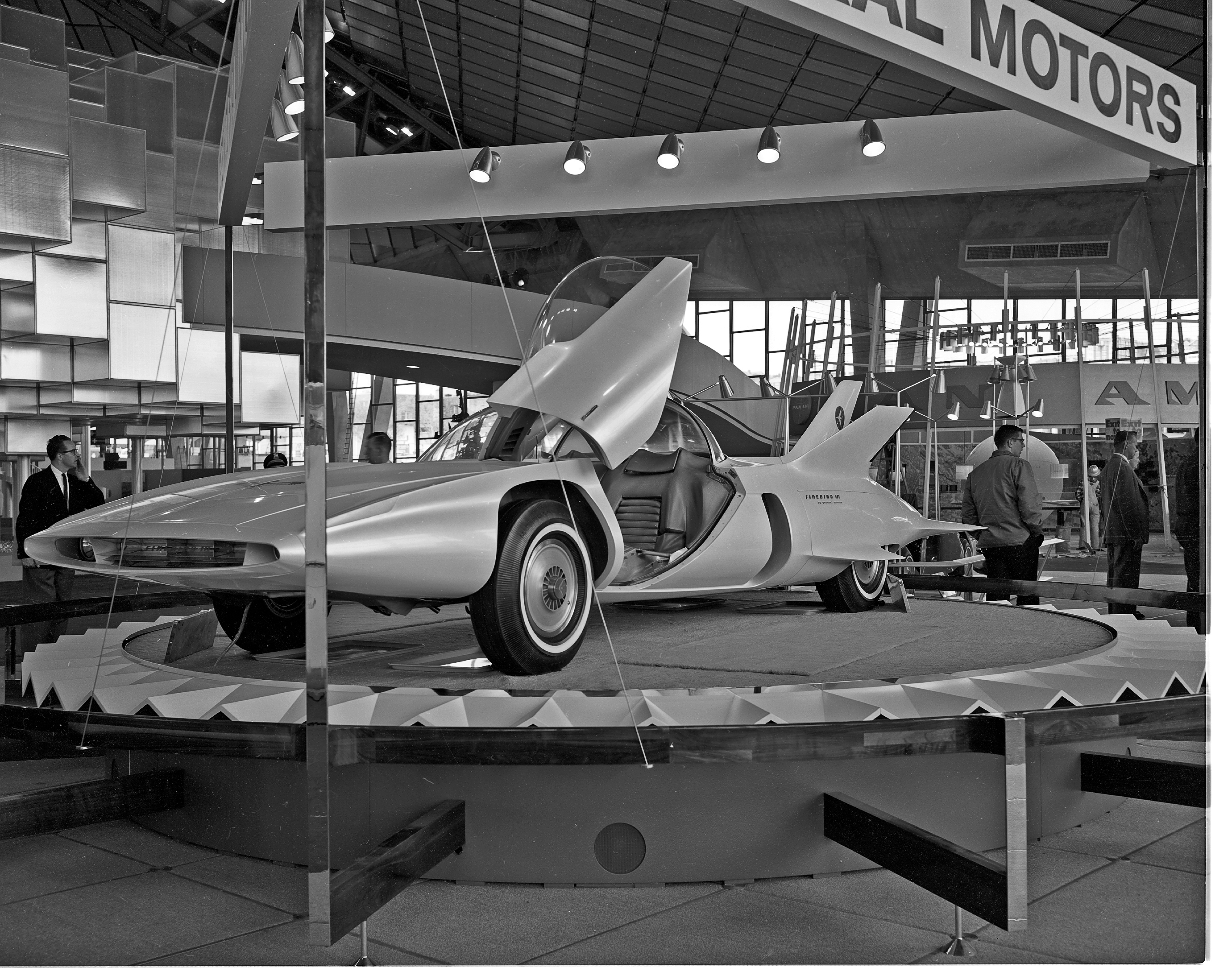 General Motors exhibit at Century 21 Exposition (World's Fair), Seattle, Washington, USA, 1962. Item 78914, City Light Photographic Negatives (Record Series 1204-01), Seattle Municipal Archives.